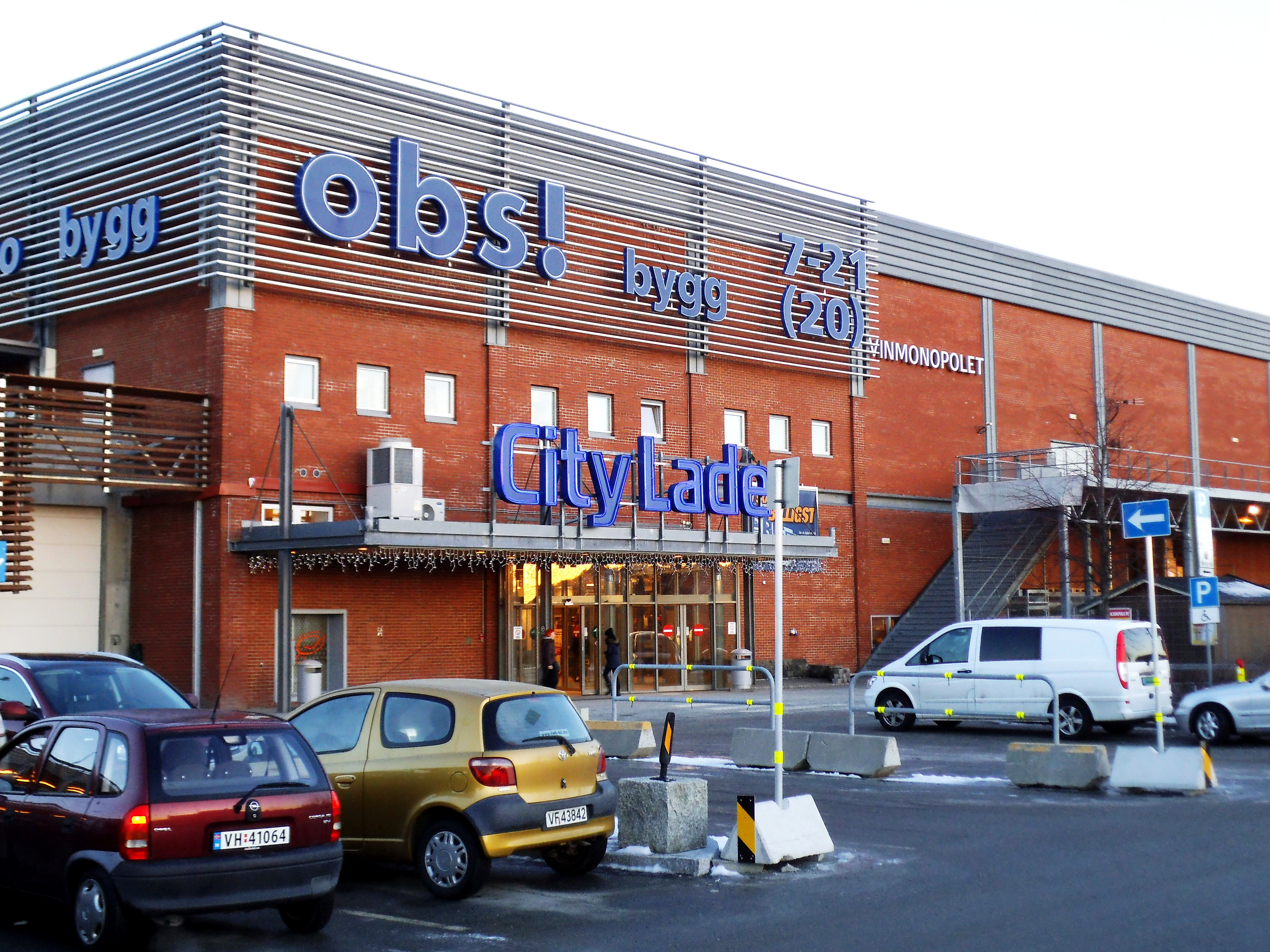 City Lade is a shopping mall in Lade, Trondheim.